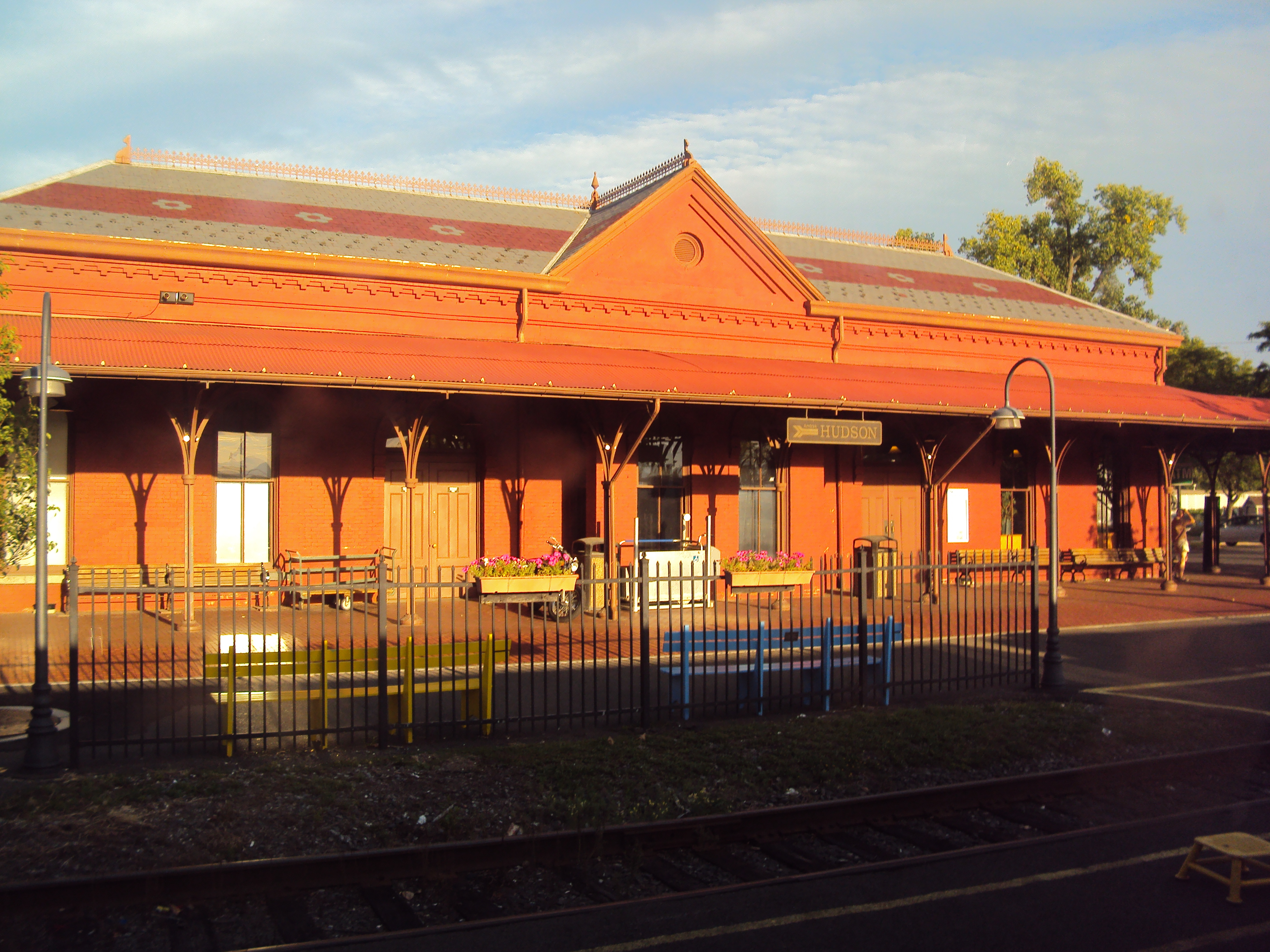 Hudson station on Adirondack amtrak line